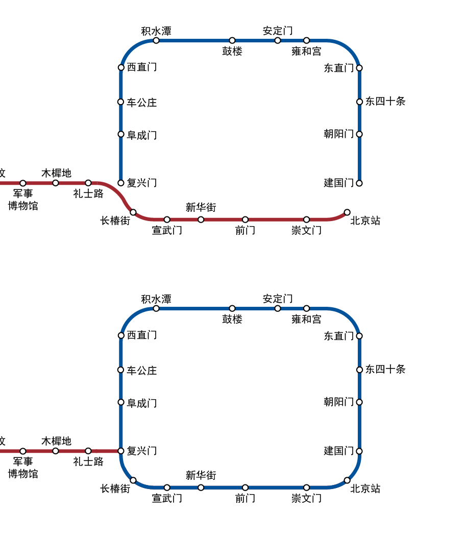 On December 28, 1987, the new crossover in Fuxingmen Station came in to use, splitting Phase 1 into two parts: one from Changchunjie to Beijing Railway Station, connected with Phase 2 on both ends to form a circle line; the other from Pingguoyuan to Lishilu (Nanlishilu), extended into Fuxingmen Station, making it possible to transfer between the two lines. The two new lines are called Line 1 and Line 2 nowadays. Not drawn to the scale.